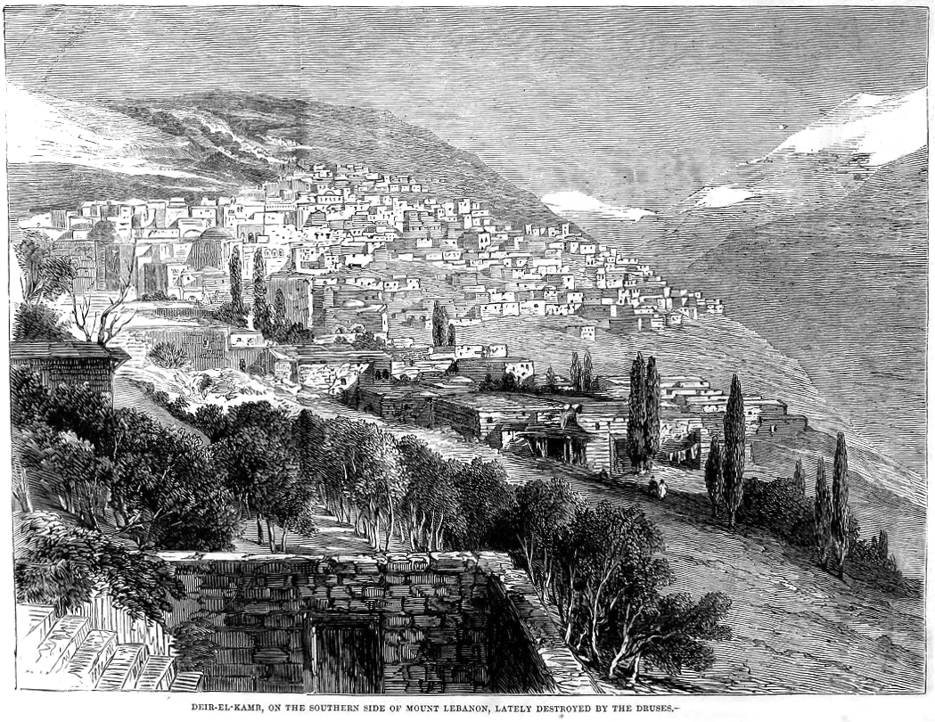 Deir al Kamr, on the southern side of Mount Lebanon, lately destroyed by the Druses